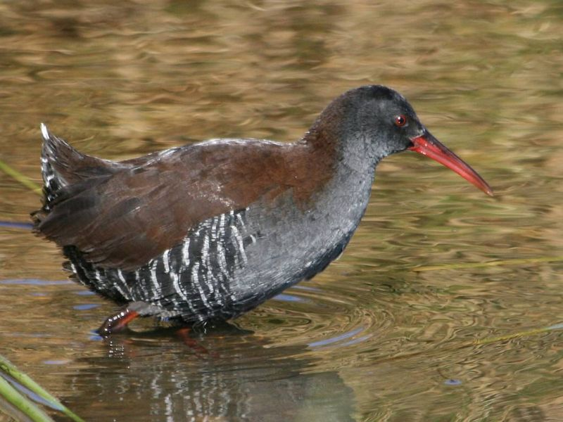 African Rail (Rallus caerulescens) Location: Cedara Farm, Pietermaritzburg, KwaZulu-Natal, South Africa.